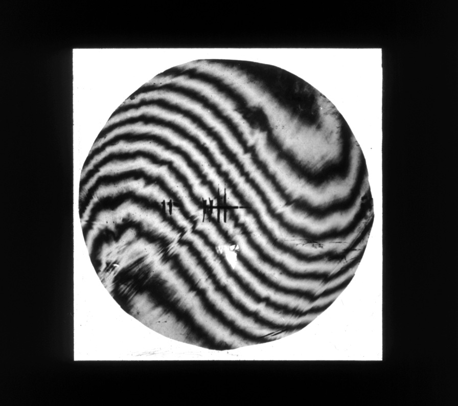 Reference: DS.GP.1919/3389 This photograph shows a test on Mirrors for the Schmidt Observatory at some point in the Early 20th Century. The equipment was made by Grubb Parsons in Newcastle upon Tyne. This photograph is taken from the Grubb Parsons Ltd collection at Tyne & Wear Archives. The records of Grubb Parsons Ltd, Newcastle upon Tyne, England, consist of 65 linear metres (213 linear feet) of files, plans, photographs and glass plate negatives relating to this internationally renowned firm's manufacture of precision telescopic instruments. The original Business was founded in the early nineteenth century by Thomas Grubb, in 1925 the company was acquired by Sir Charles Parsons and continued to manufacture Telescopic and Astronomical instruments until 1985. This Glass Lantern Slide is taken from a large collection that documents the work of Grubb Parsons Ltd at their workshop in Walkergate, Newcastle upon Tyne. It was here that Grubb Parsons Ltd manufactured Telescopic and Astronomical equipment for companies and observatories world wide. Their equipment was designed and built for use and research across the Globe, to name only a few of these locations Grubb Parsons Ltd supplied to the UK, Switzerland, Denmark, Egypt, South Africa, Greece, Australia, Japan, India, Hawaii, Poland, Chile, Canada, France and Spain. (Copyright) We're happy for you to share these digital images within the spirit of The Commons. Please cite 'Tyne & Wear Archives & Museums' when reusing. Certain restrictions on high quality reproductions and commercial use of the original physical version apply though; if you're unsure please